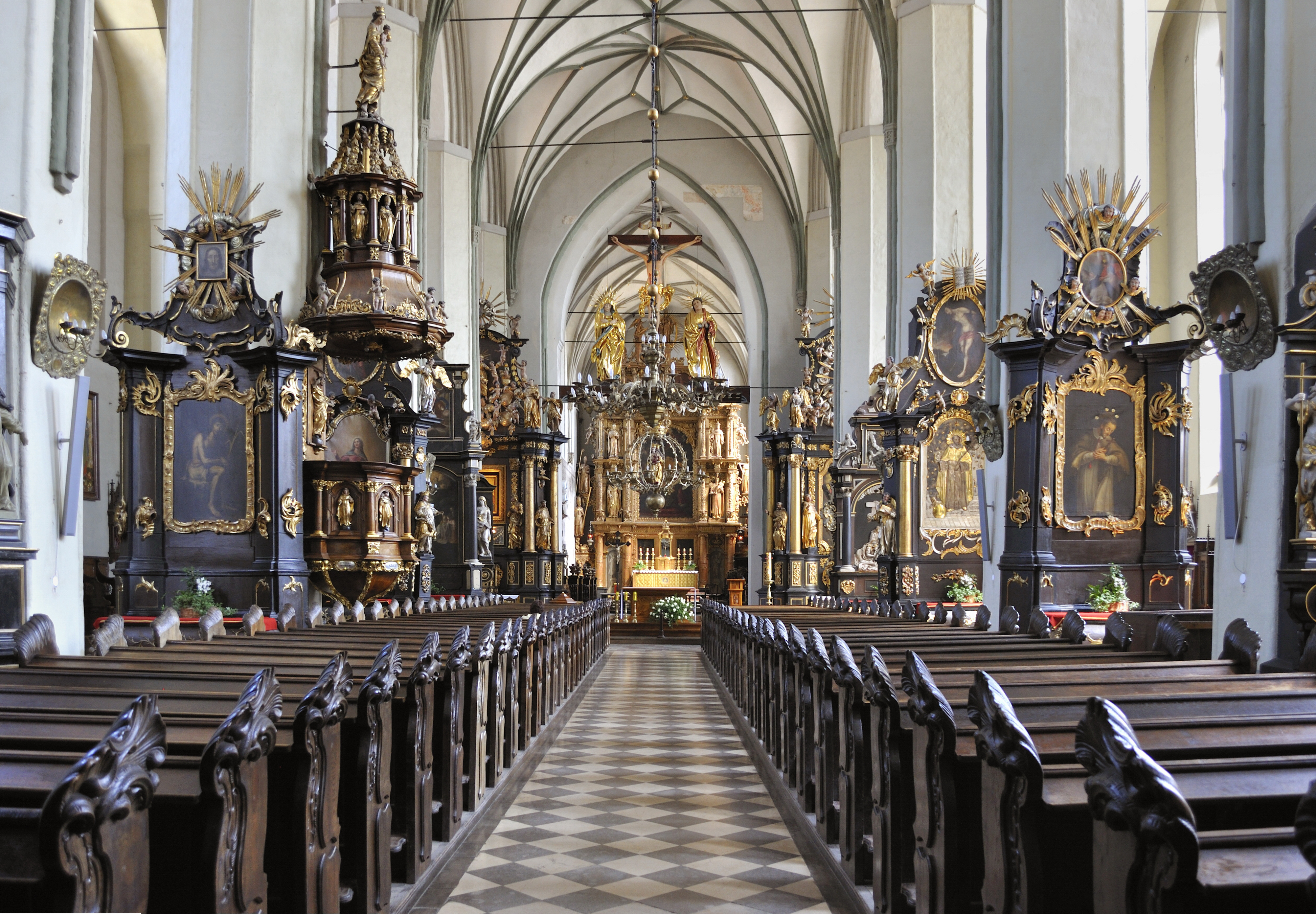 Picture taken in Gdańsk after Wikimania 2010 conference. Interior of St. Nicholas Church.